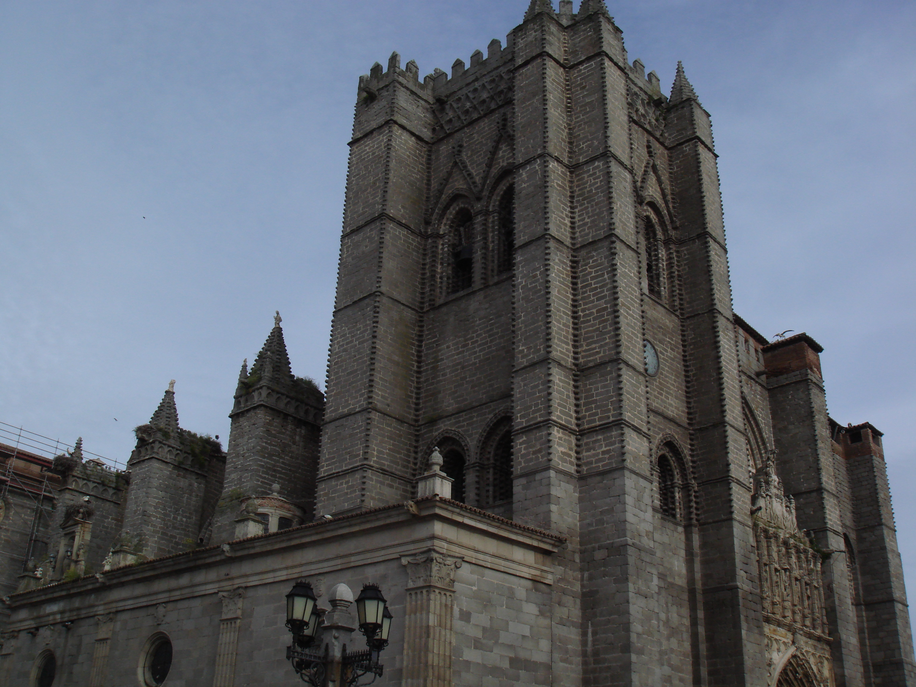 Catedral de Ávila. Ávila Cathedral Native nameCatedral del Salvador de ÁvilaLocationÁvila, (Spain)Coordinates40° 39′ 21″ N, 4° 41′ 50″ W Established12th-centuryWeb page control : Q1402296 VIAF: 135549752 ISNI: 0000 0001 2163 1408 LCCN: n81133961 BIC: RI-51-0000138 GND: 4576260-0 WorldCat institution QS:P195,Q1402296